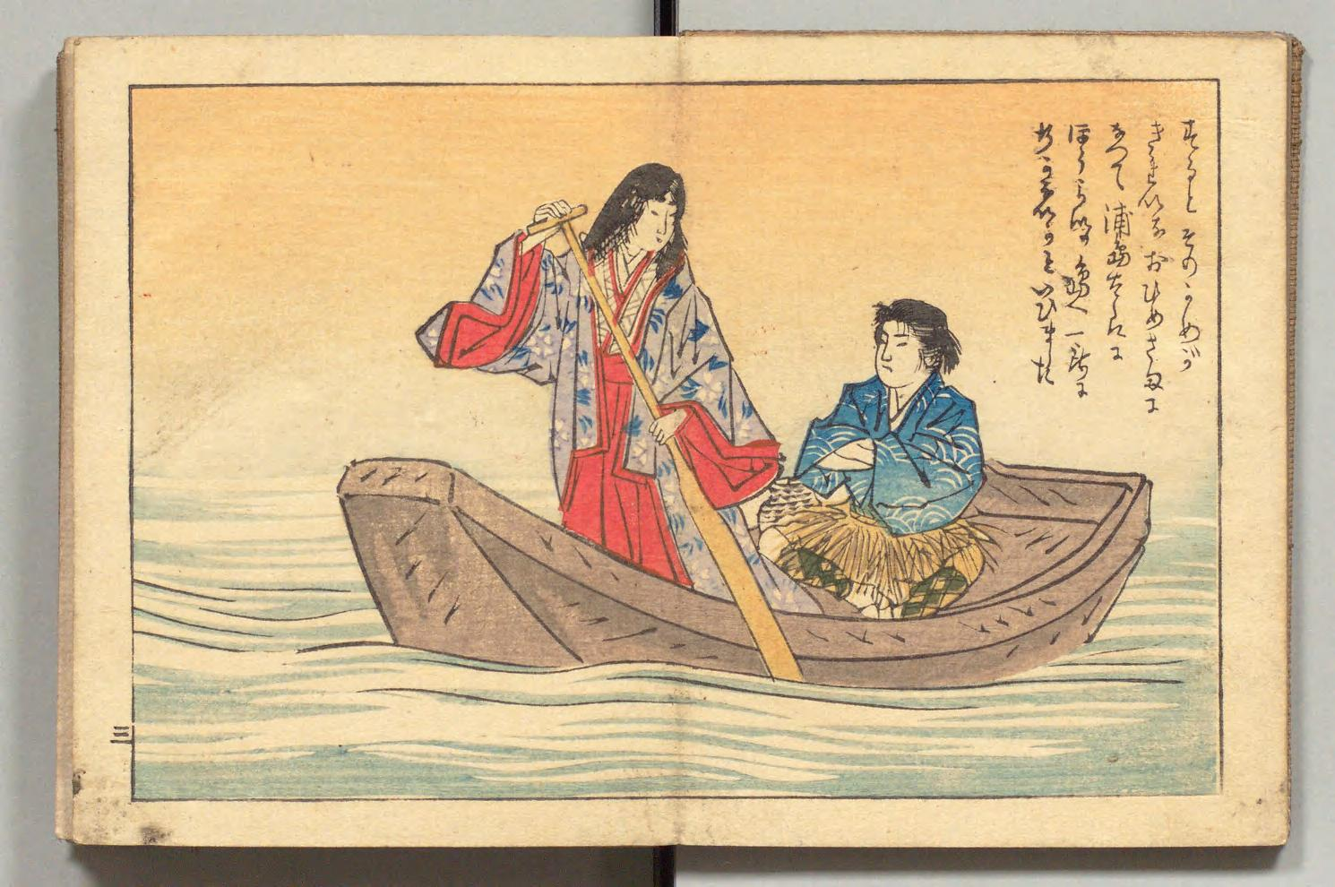 p. 3, Princess and Urashima Tarō ride boat together